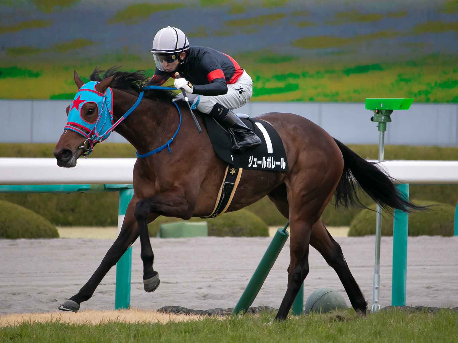 Jour Polaire(JPN), Racehorse of Japan.